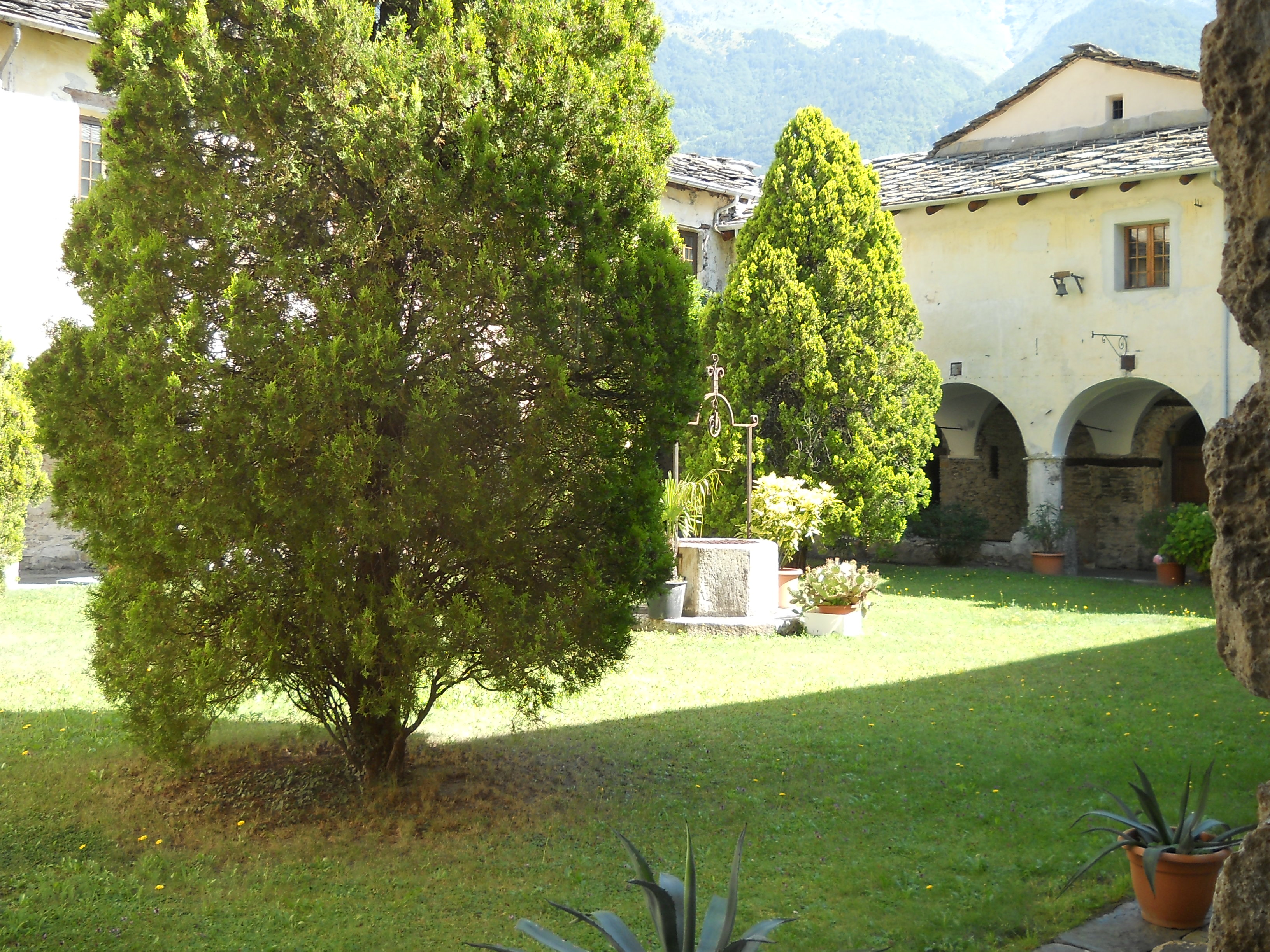 Cloister, Novalesa Abbey, Turin, Italy